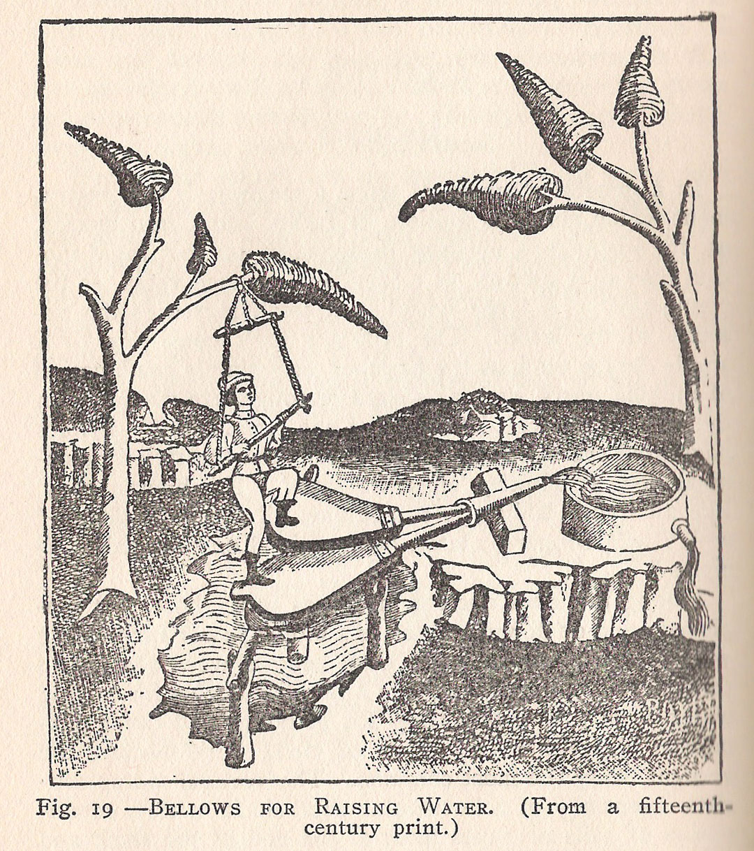 Fig. 19 Bellows for Raising Water Pg 304 of "The Science-History of the Universe", Editor Francis Rolt-Wheeler, 1910 Current Literature Publishing Company New York Flickr data on 2011-08-16: Tags: public domain, image, copyright free, vintage, illustration, book, bellows, water License: CC BY-SA 2.0 User: perpetualplum Sue Clark